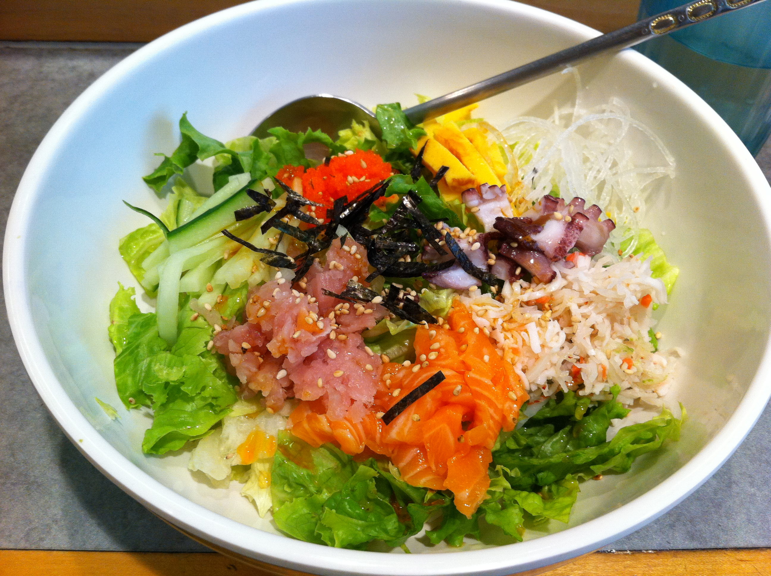 Seafood Bibimbap